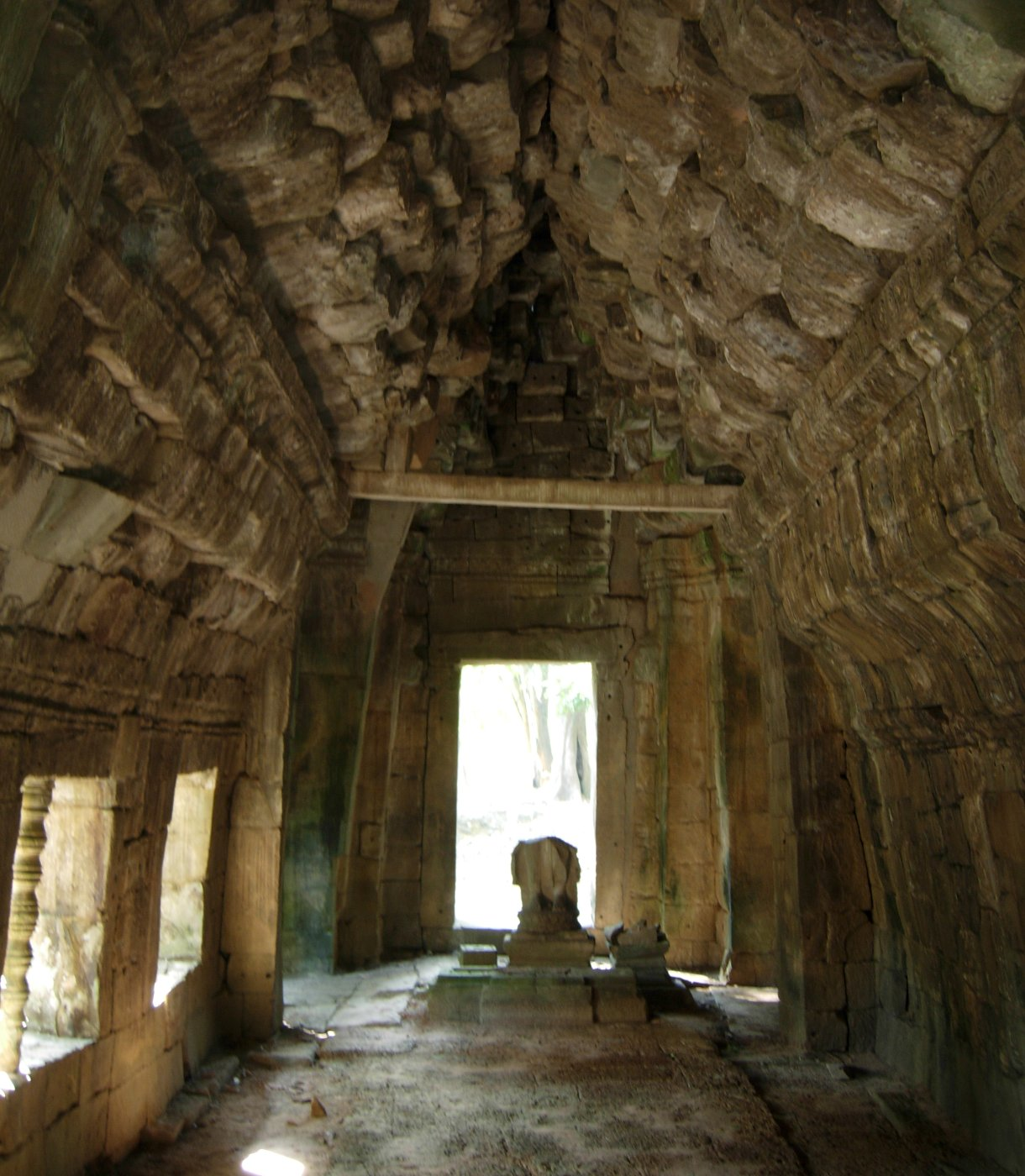 a gallery of Preah Khan, Angkor, Cambodia